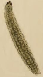 Stainton’s Natural History of the Tineina (1855–1873): Bucculatrix ratisbonensis